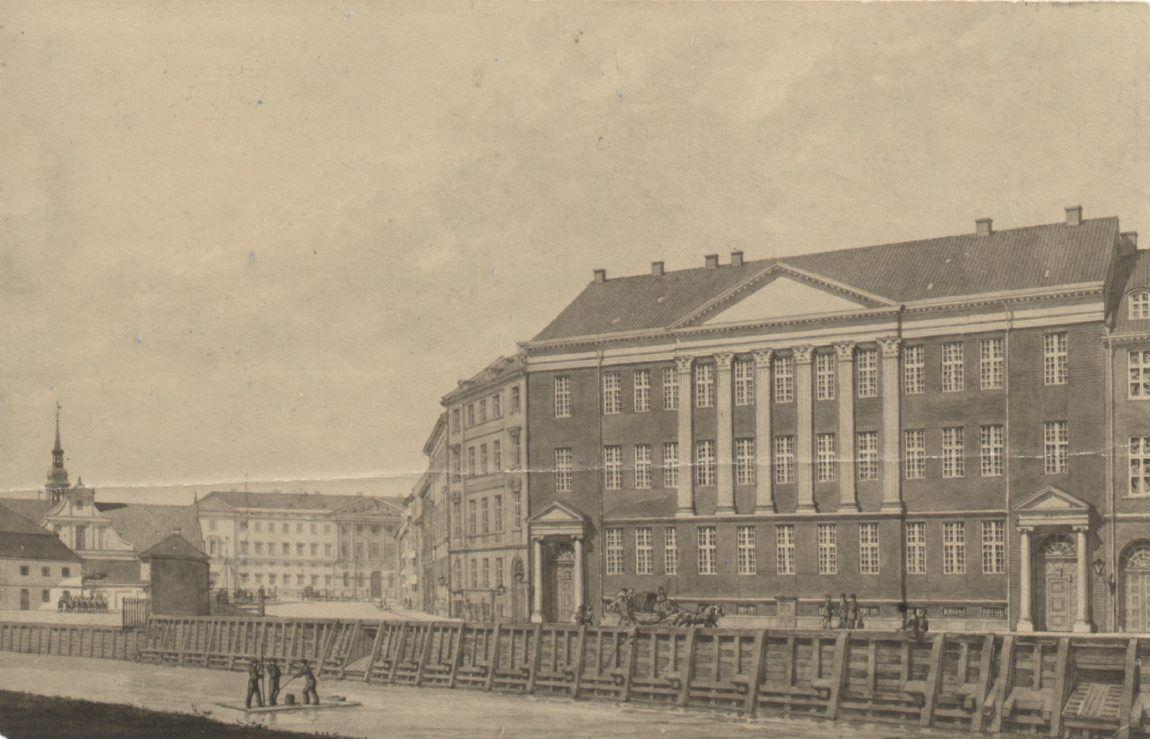 The Peschier House in Holmens Kanal in Copenhagen, Denmark